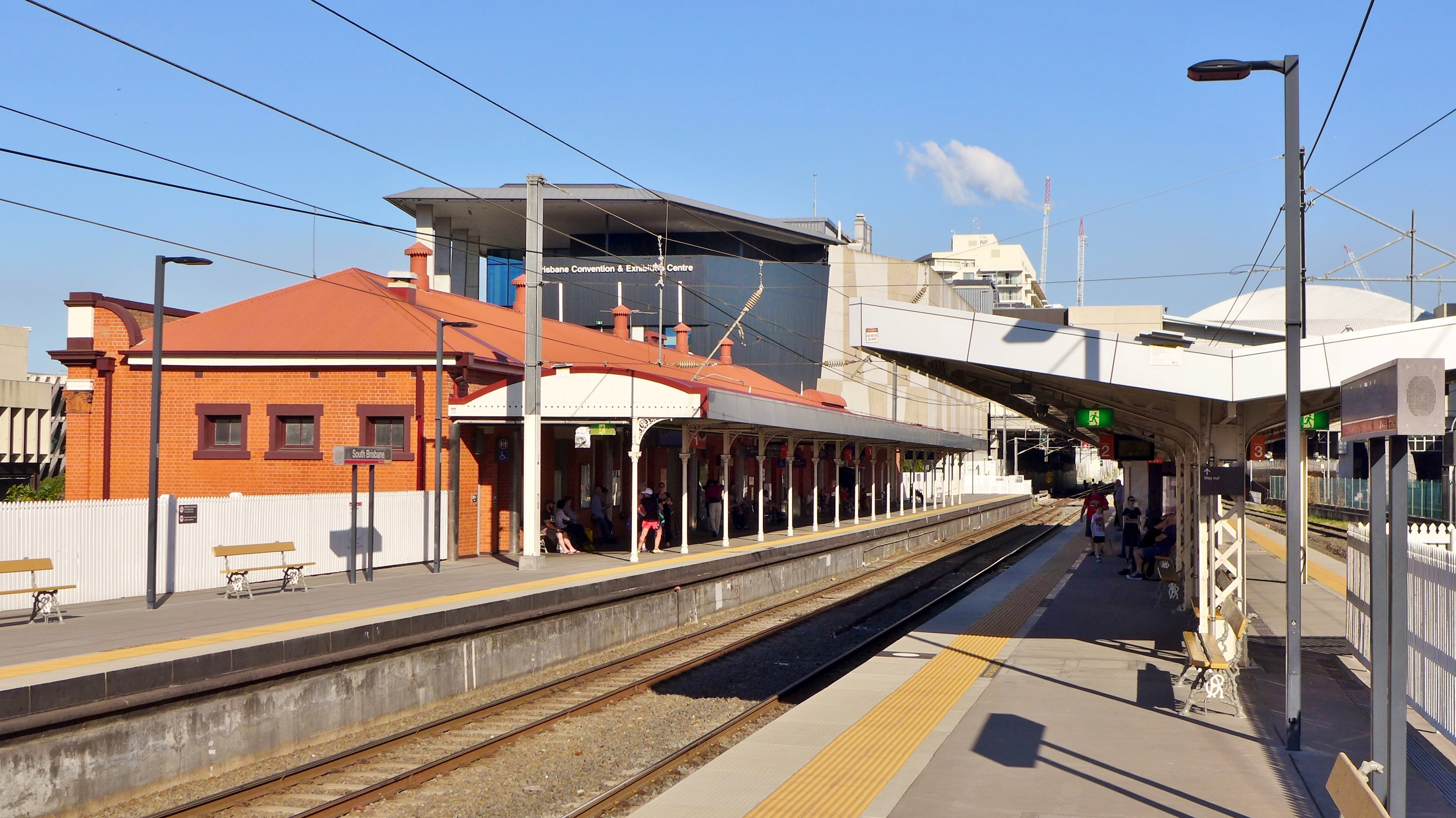 View of the platforms at South Brisbane railway station